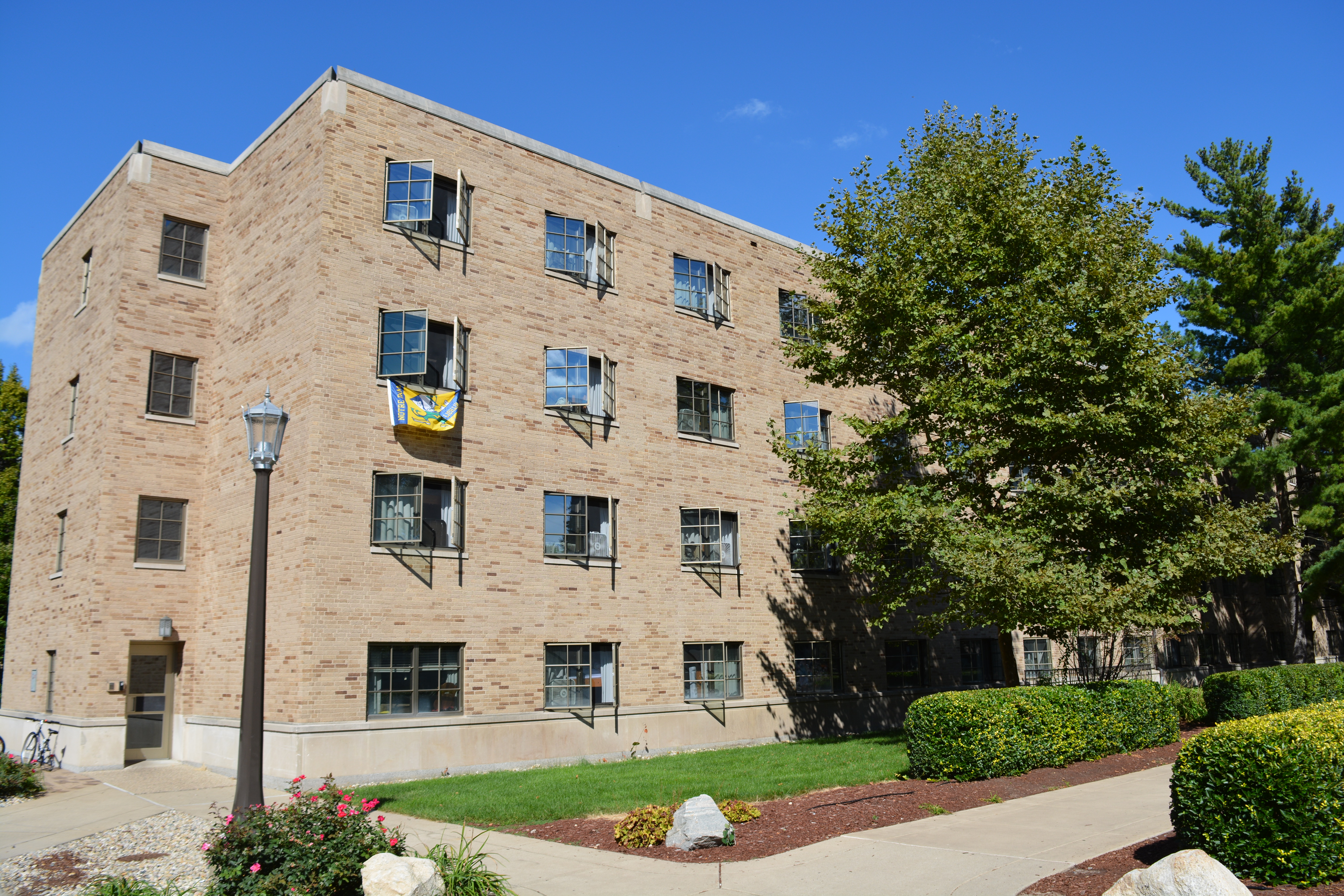 Keenan Hall - University of Notre Dame